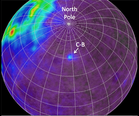 For the en:Compton-Belkovich Thorium Anomaly article.